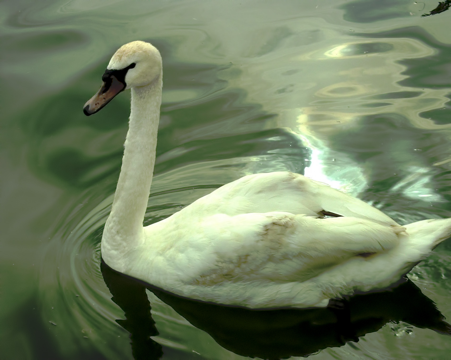 Doppler effect of a swan around.